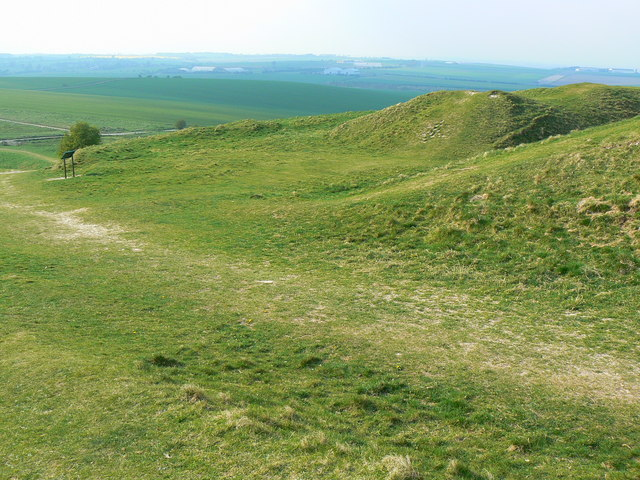 Barbury Castle was built in the 6th century BC by the Celts as a refuge against warring tribes. The track crossing diagonally across the image is the Ridgeway. The path can also just be seen at the bottom of the hill at the extreme left of the image.